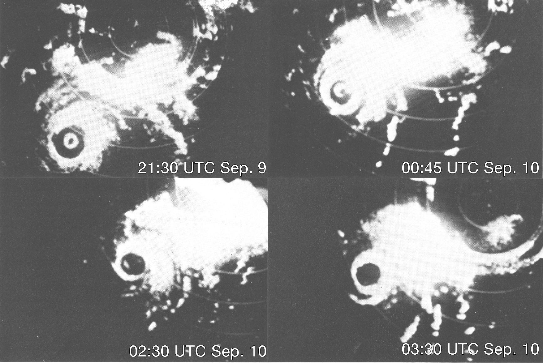 A montage of radar images from 21:30 UTC on September 9 to 03:30 UTC on September 10, 1967, depicting the eyewall replacement cycle of Hurricane Beulah as it moved south of Puerto Rico. This was the first time that such an event had been observed in its entirety.